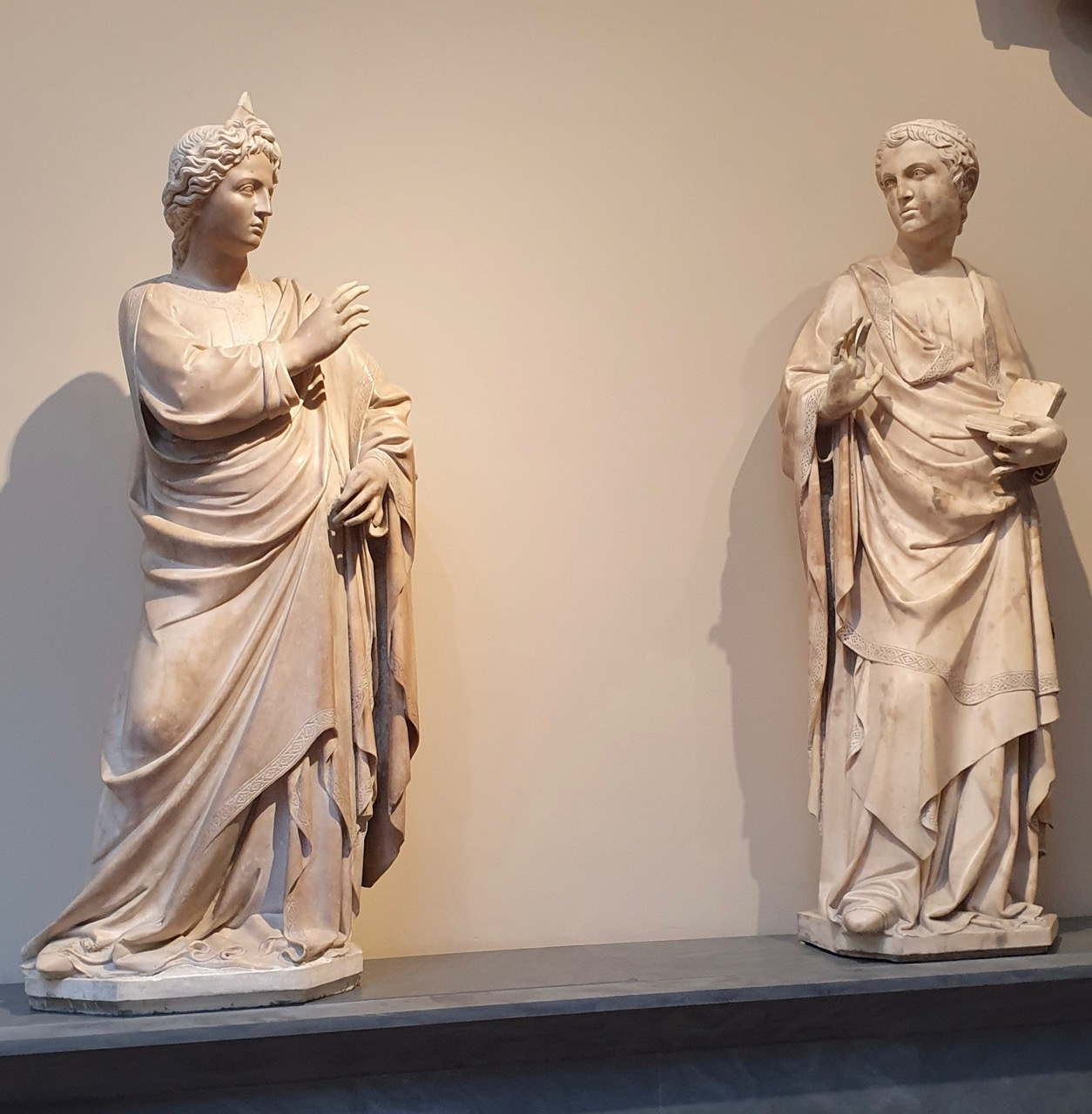 Gruppo dell'annunciazione by Giovanni d'ambrogio at Museo dell'Opera del Duomo